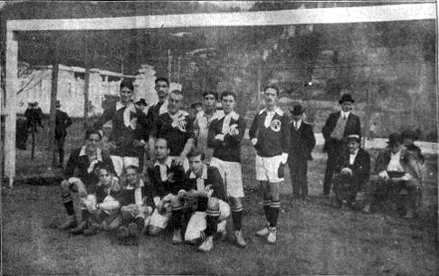 US Internazionale, a Naples football (soccer) team, in 1912.